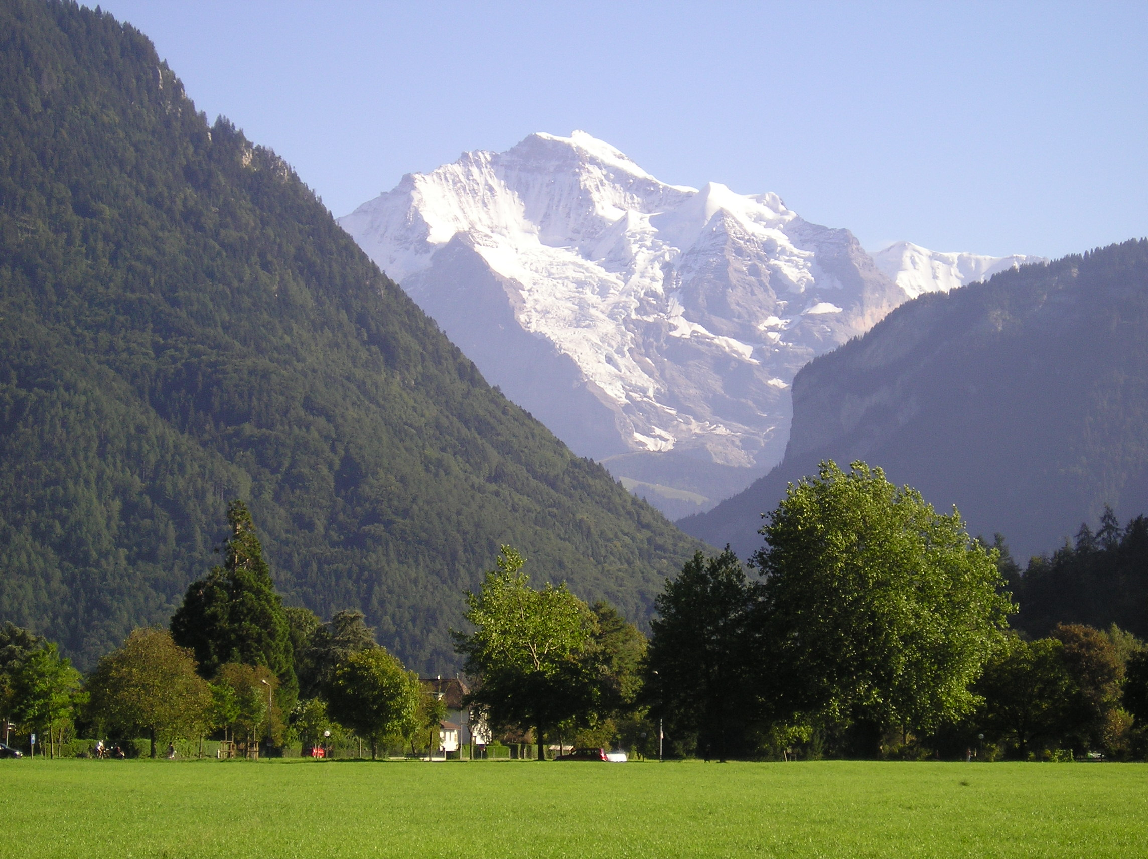 Oiginal digital photograph. Author: Kenneth Barclay